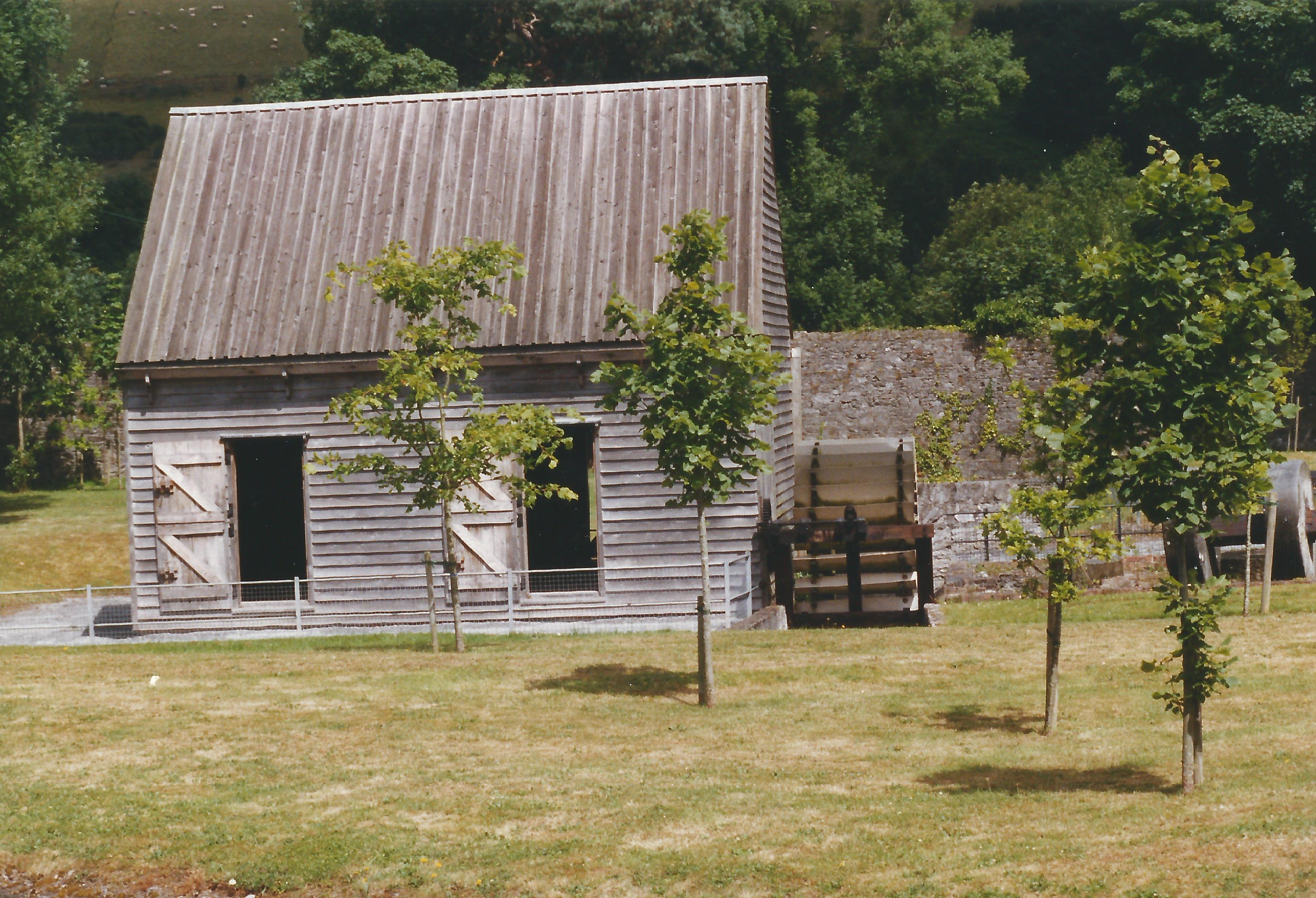 Ballincollig Royal Gunpowder Mills, Ballincollig, County Cork, Ireland, July 1999